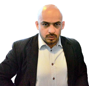 Mustafa Nayyem, a well-known Ukrainian journalist and member of parliament (starting from October 2014) of Afghan origin.